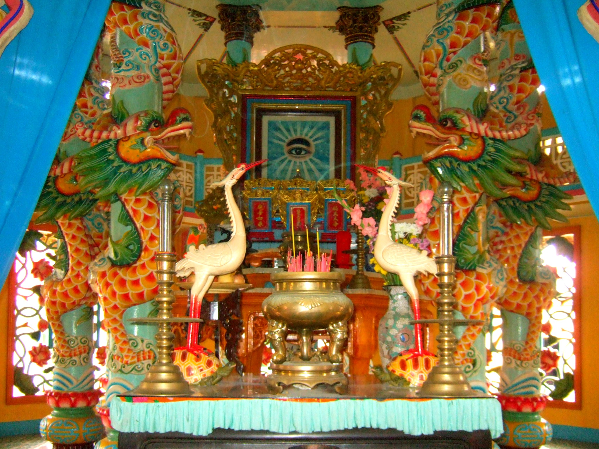 Cao Dai temple in My Tho, Mekong Delta, Vietnam